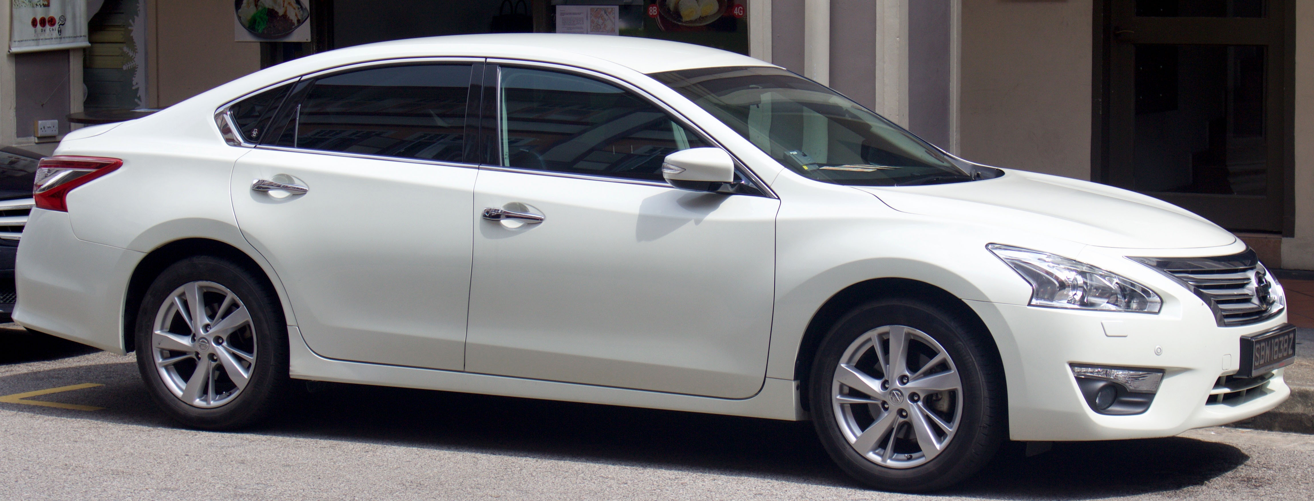 2014 Nissan Teana (L33) 2.0XL sedan. Photographed in Singapore. Vehicle registration enquiry resultsJurisdictionSingaporeRegistrationSBW1838ZChassis codeMNTBBAL33Z0003506Engine codeMR20038642RYear of manufacture2014